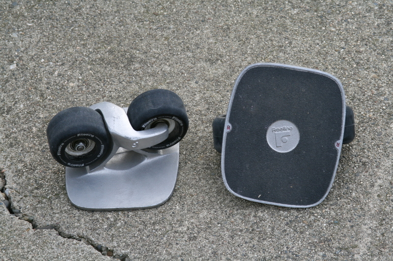 picture of a pair of Freeline skates